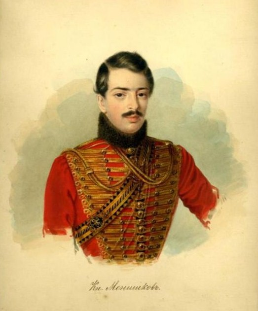 Prince Menshikov, Vladimir Aleksandrovich.